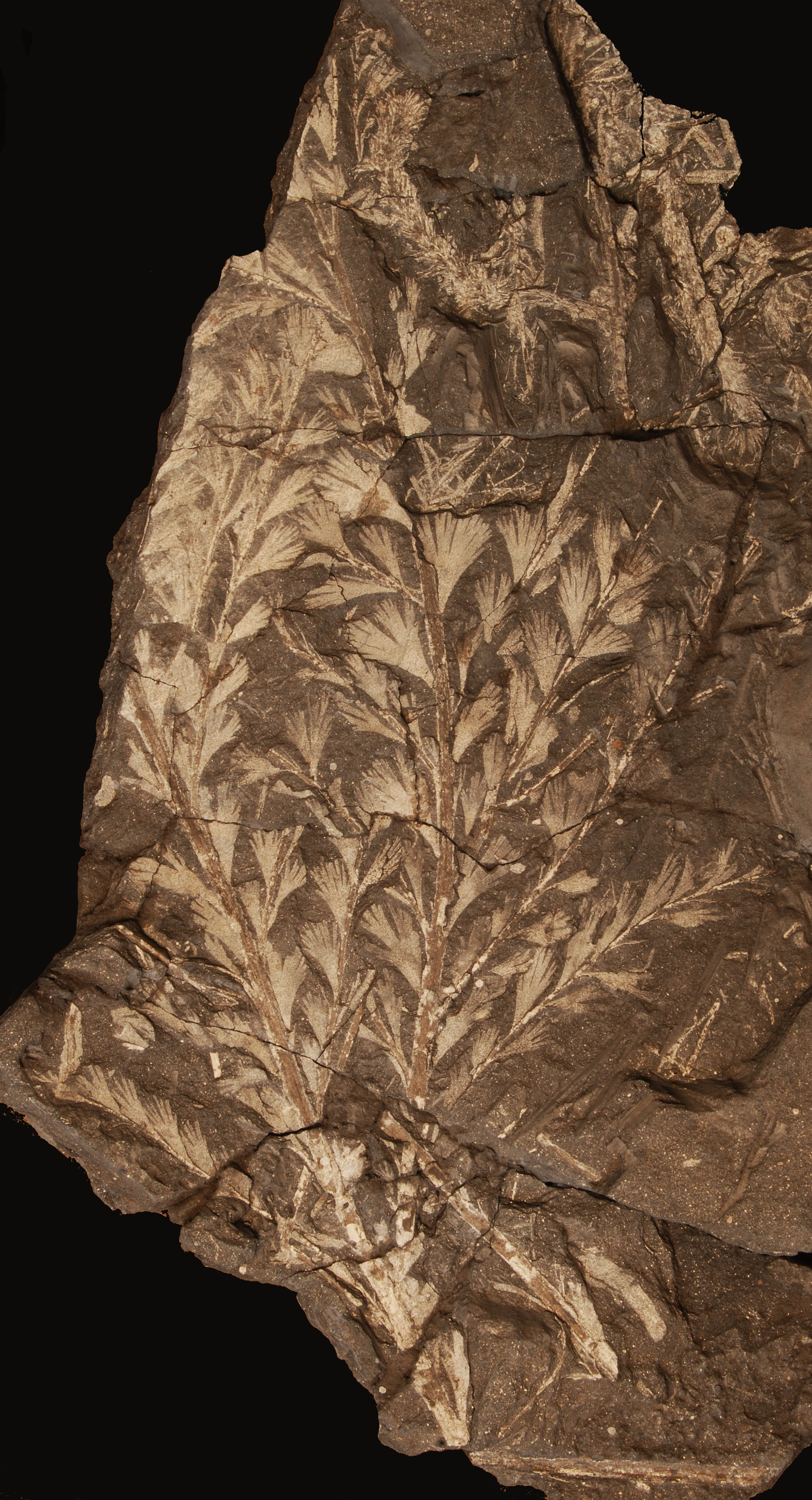 Archaeopteris notosaria fronds from the Waterloo Farm lagerstätte in the Eastern Cape, South Africa. These represent the only high latitude species of Archaeopteris as yet discovered